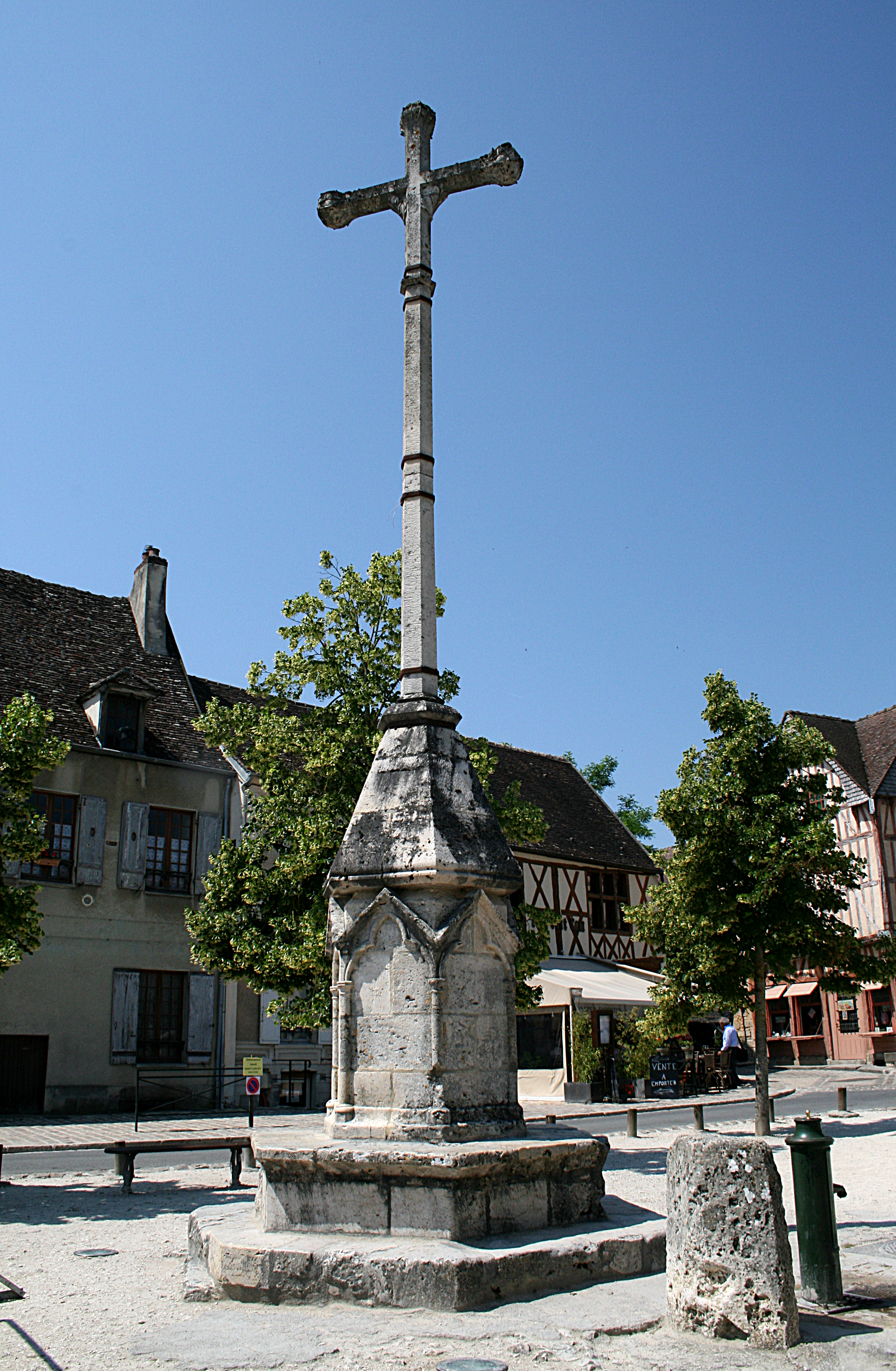 Provins (Île-de-France), place du Châtel - La Croix des Changes also called Croix des Edits (13th century), because it was the place of currency transactions during the Champagne fairs and the proclamations of the edicts of the count, then the king.